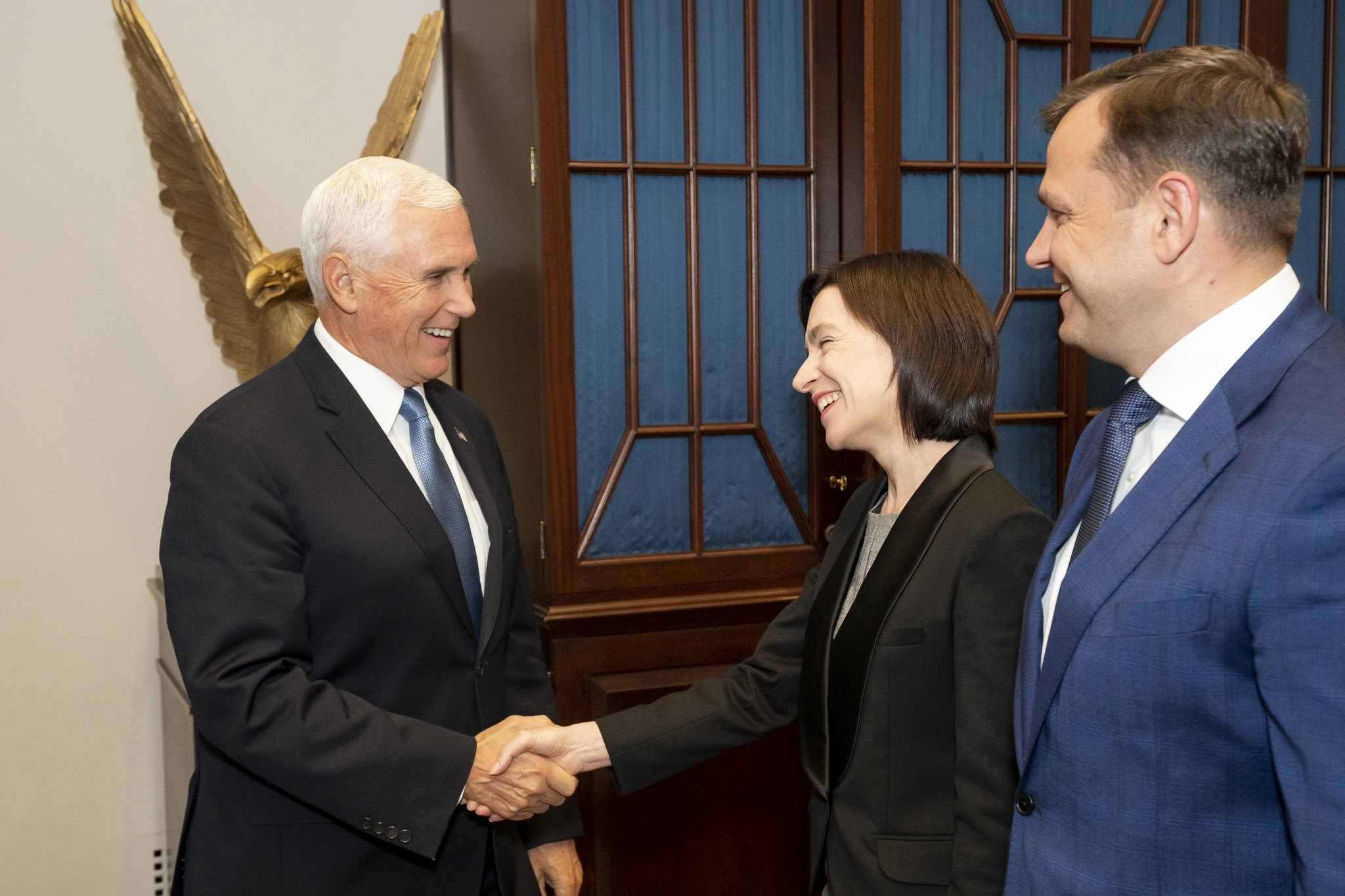 Proud to welcome the Prime Minister of Moldova Maia Sandu to the White House today! The US stands with the Moldovan people as they work to build a more secure & prosperous future!